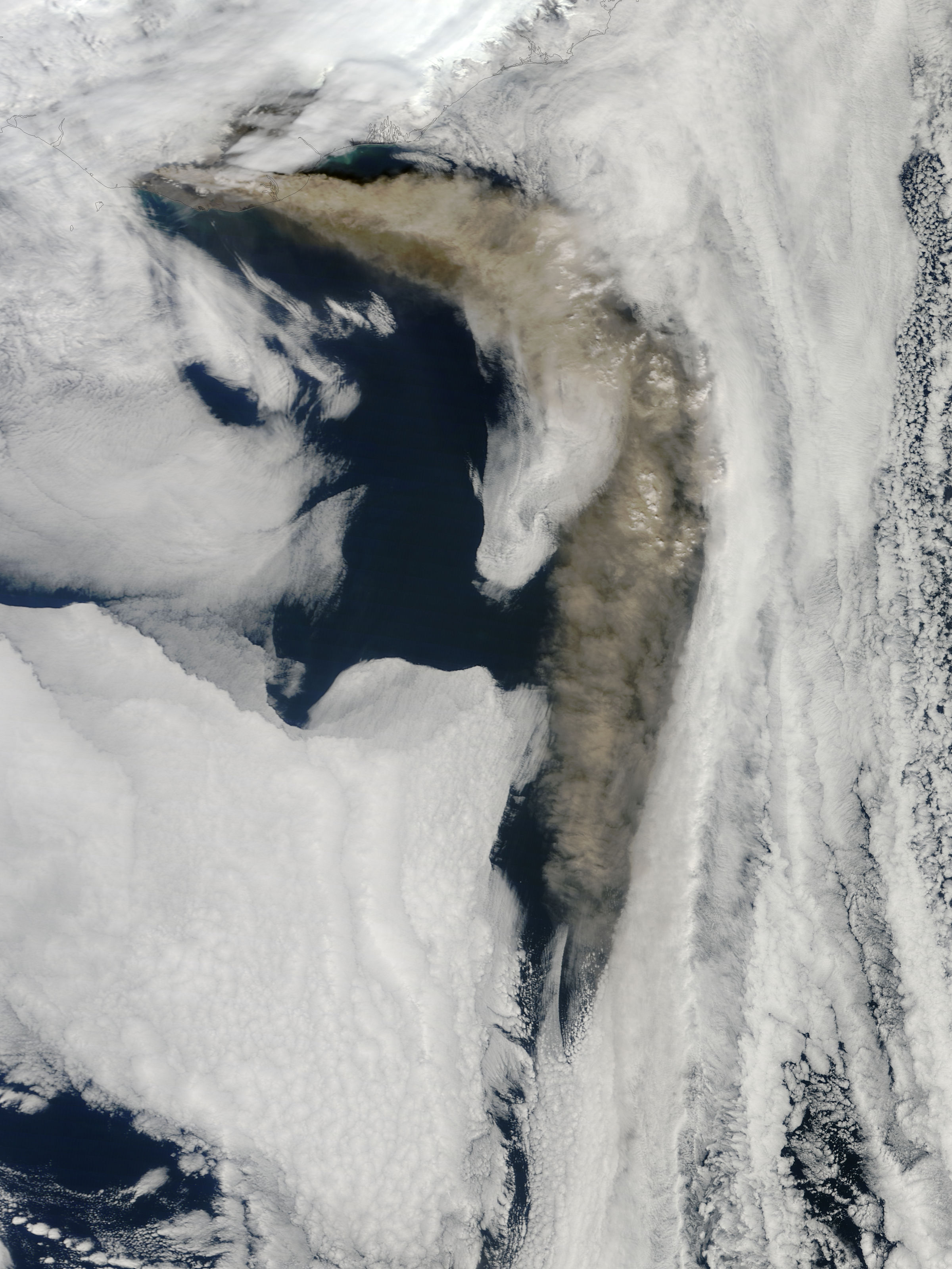 View of a thick plume of ash blowing east and then south from the volcano. Clouds bracket the edges of the scene, but the dark blue waters of the Atlantic Ocean show in the middle, and above them, a rippling, brownish-yellow river of ash.